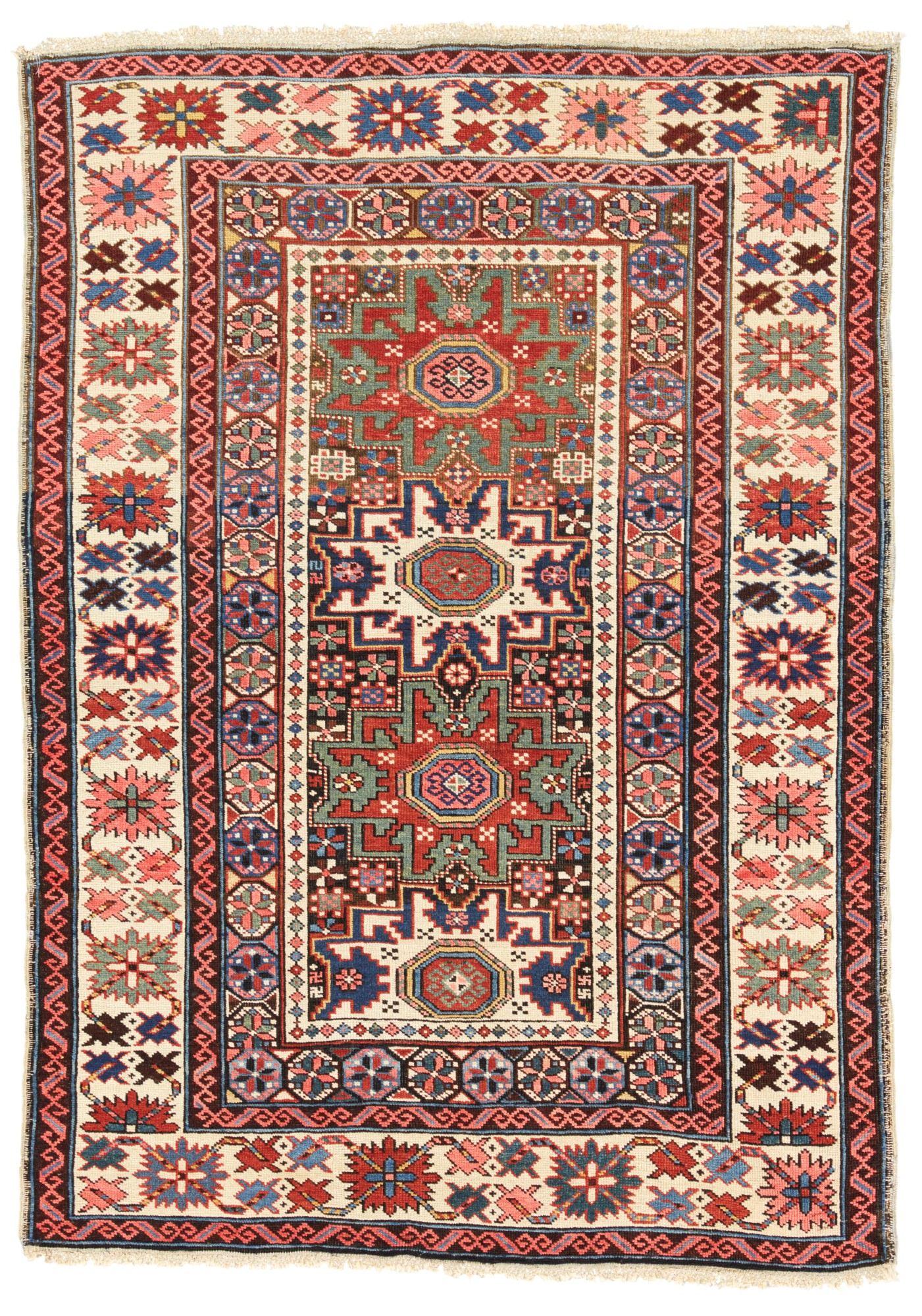 LESGHI RUG, EAST CAUCASUS, circa 1880 approximately 162 by 113cm; 5ft. 4in., 3ft. 8in.